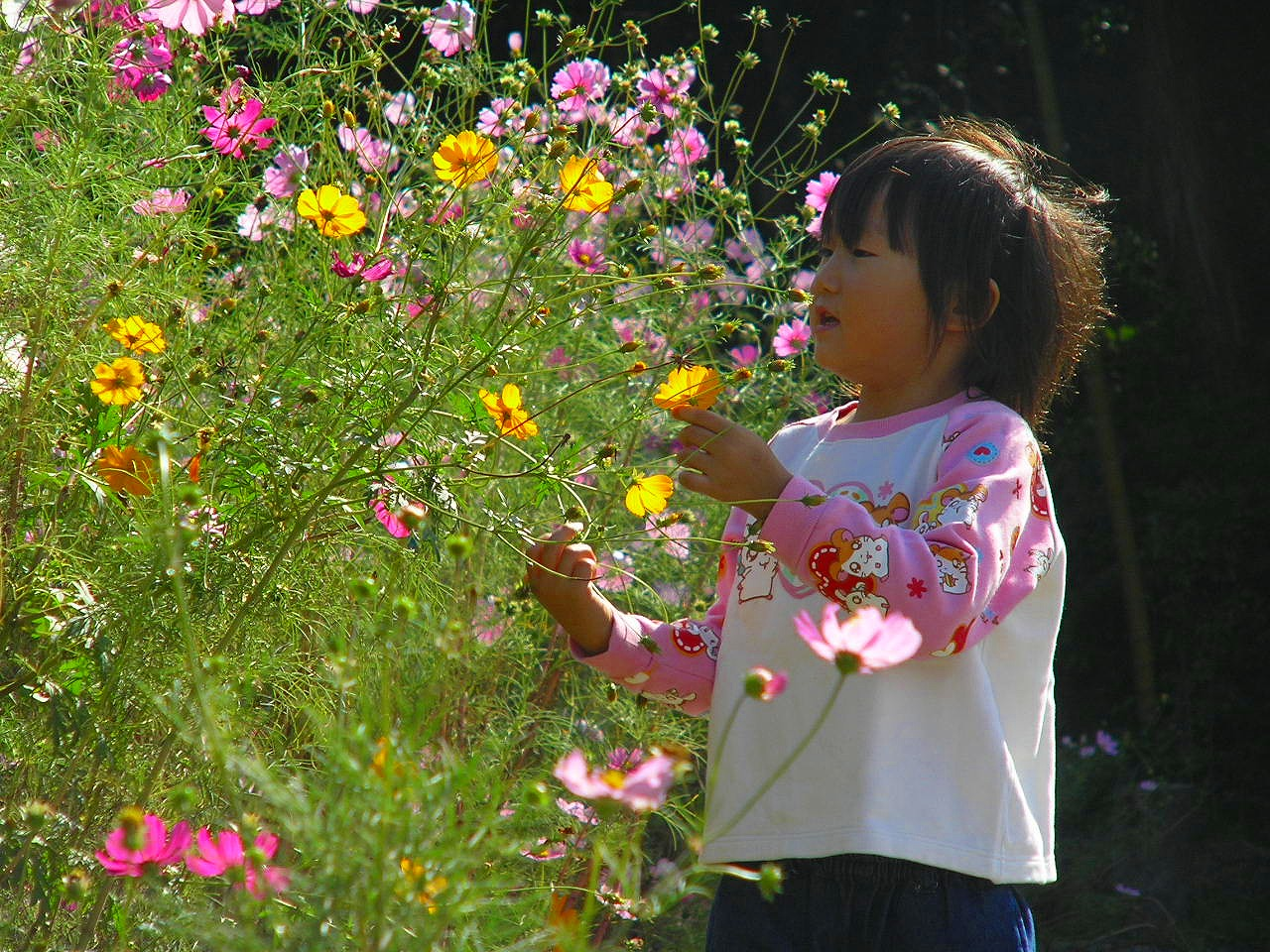 A cosmos plant and a girl